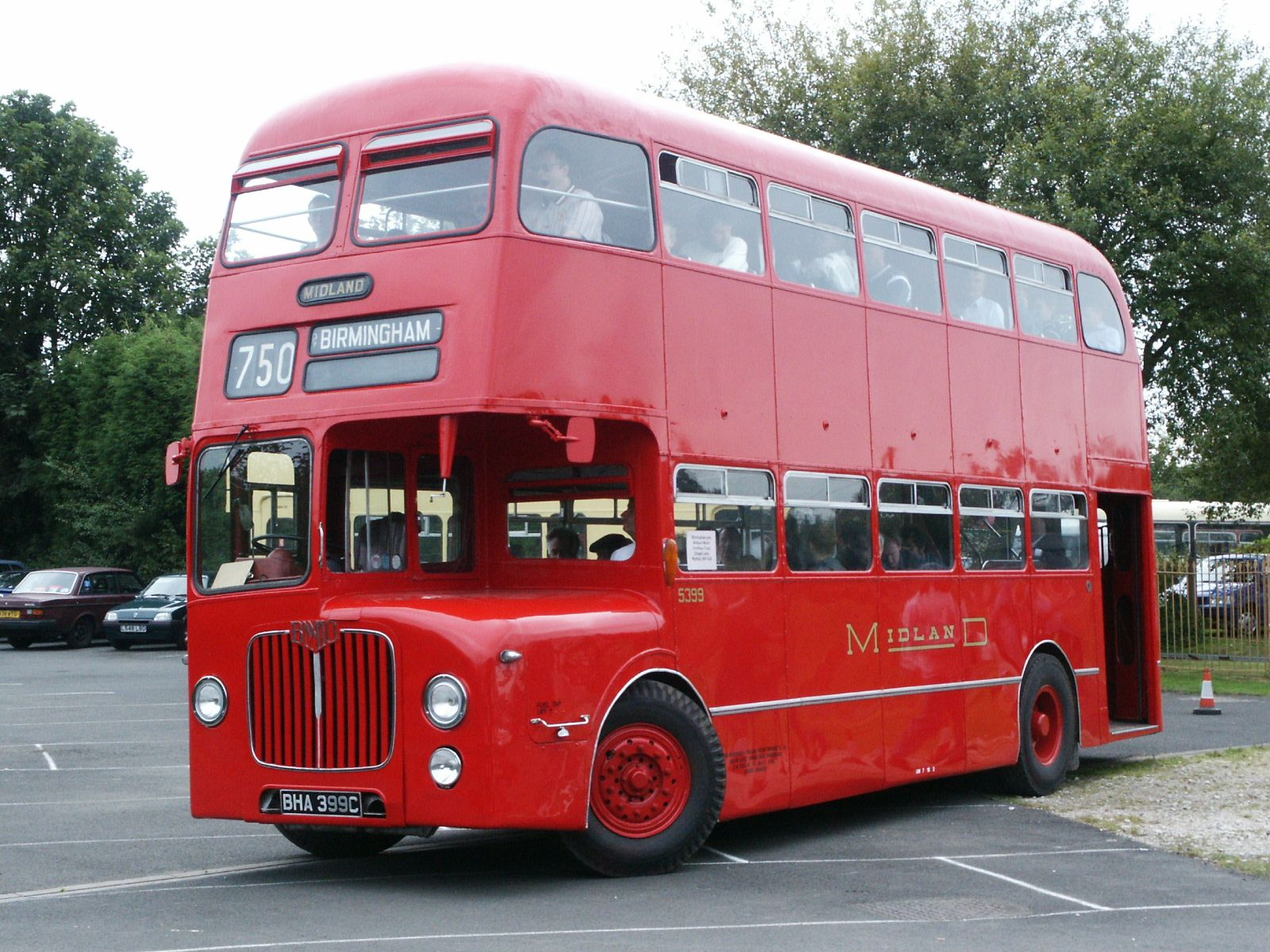 The big red bus from BaMMOt!